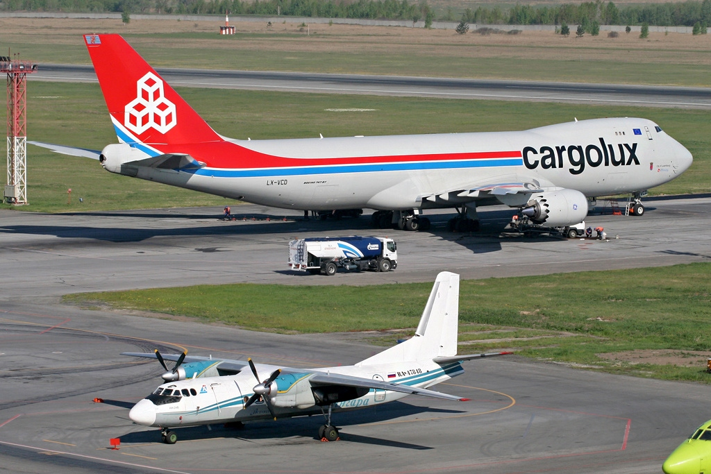 Boeing 747-800F Cargolux LX-VCD and Runway-1 behind.